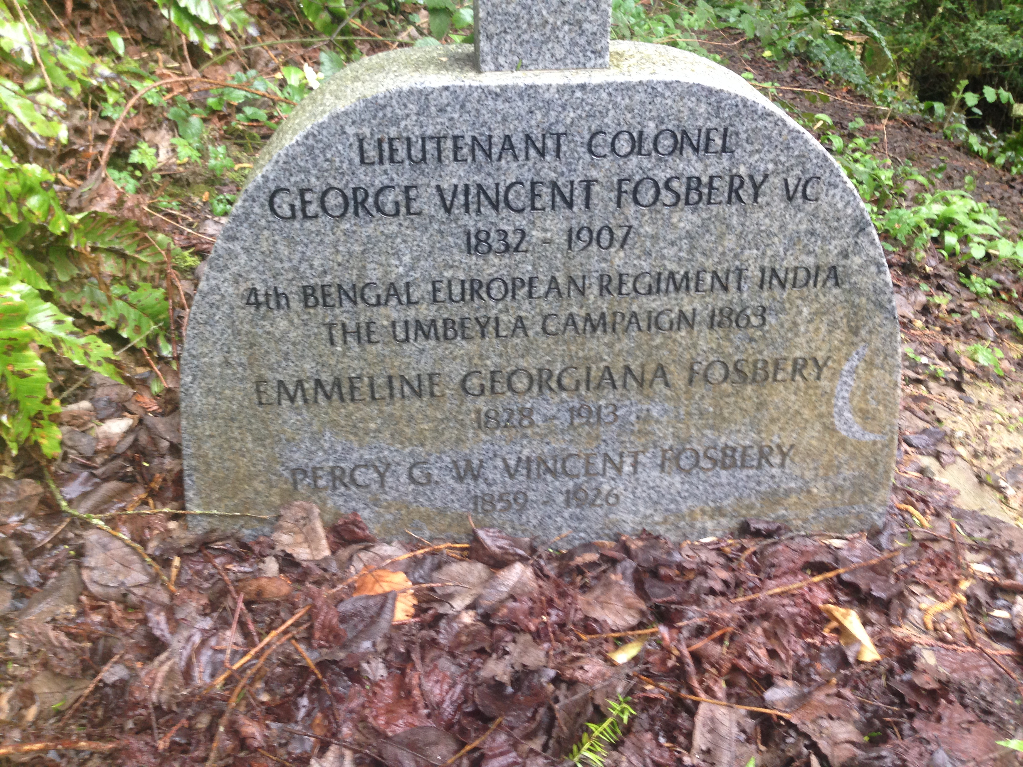 Recent (March 2016) photo of Fosbery's grave